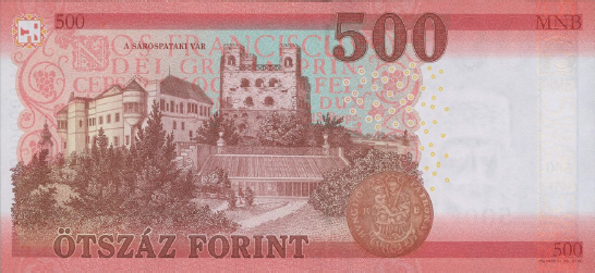 New Hungarian 500 Forints' style back.